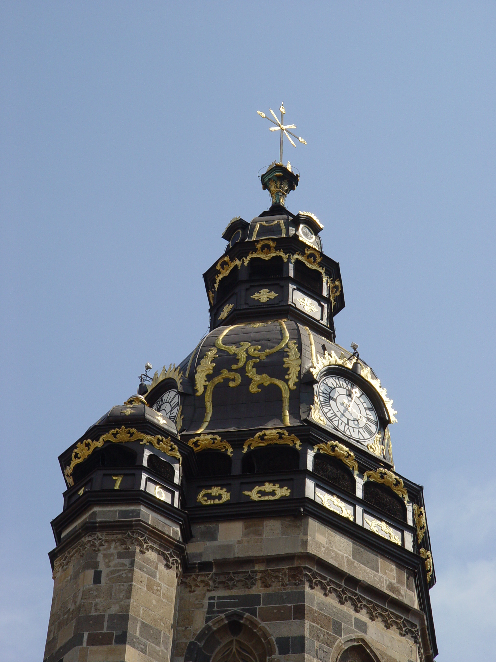 Kosice, Slovakia - St. Elisabeth Cathedral - North Tower